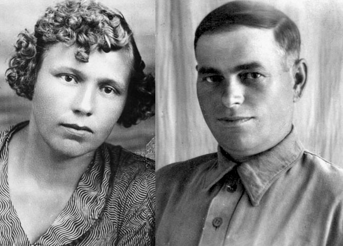 Parents of Raisa Gorbachyova (1930s)